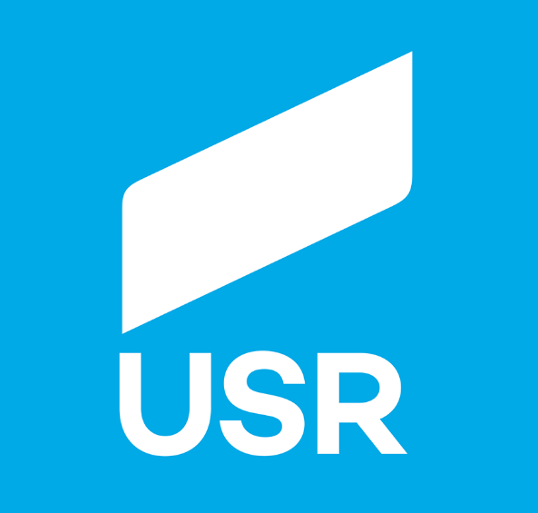 USR logo